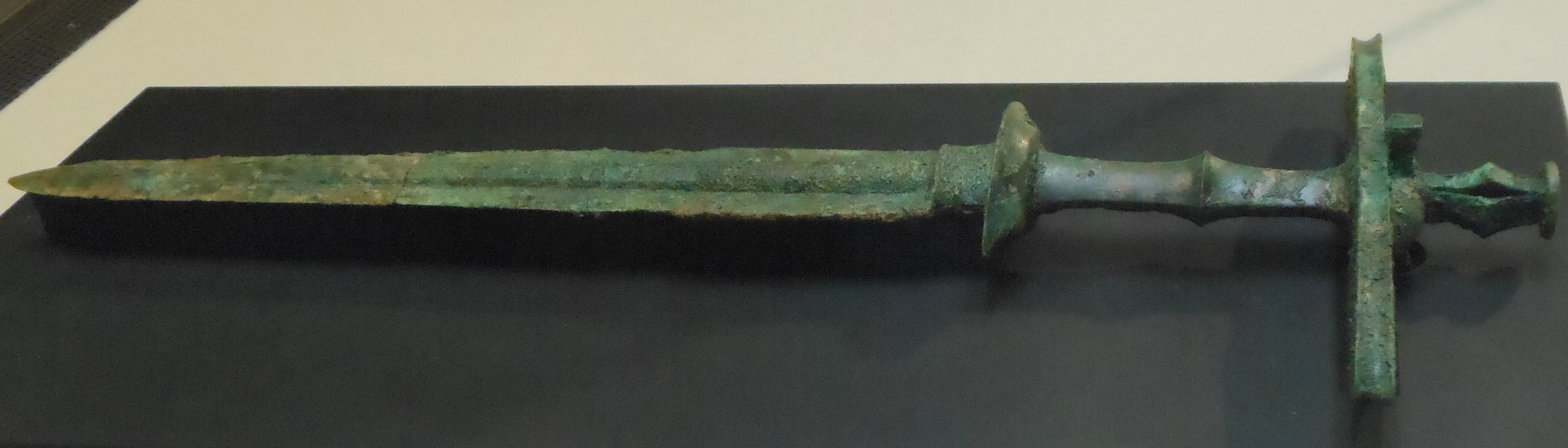 A smart bronze sword, excavated from Yoshinogari site. It made in B.C. 1st century.